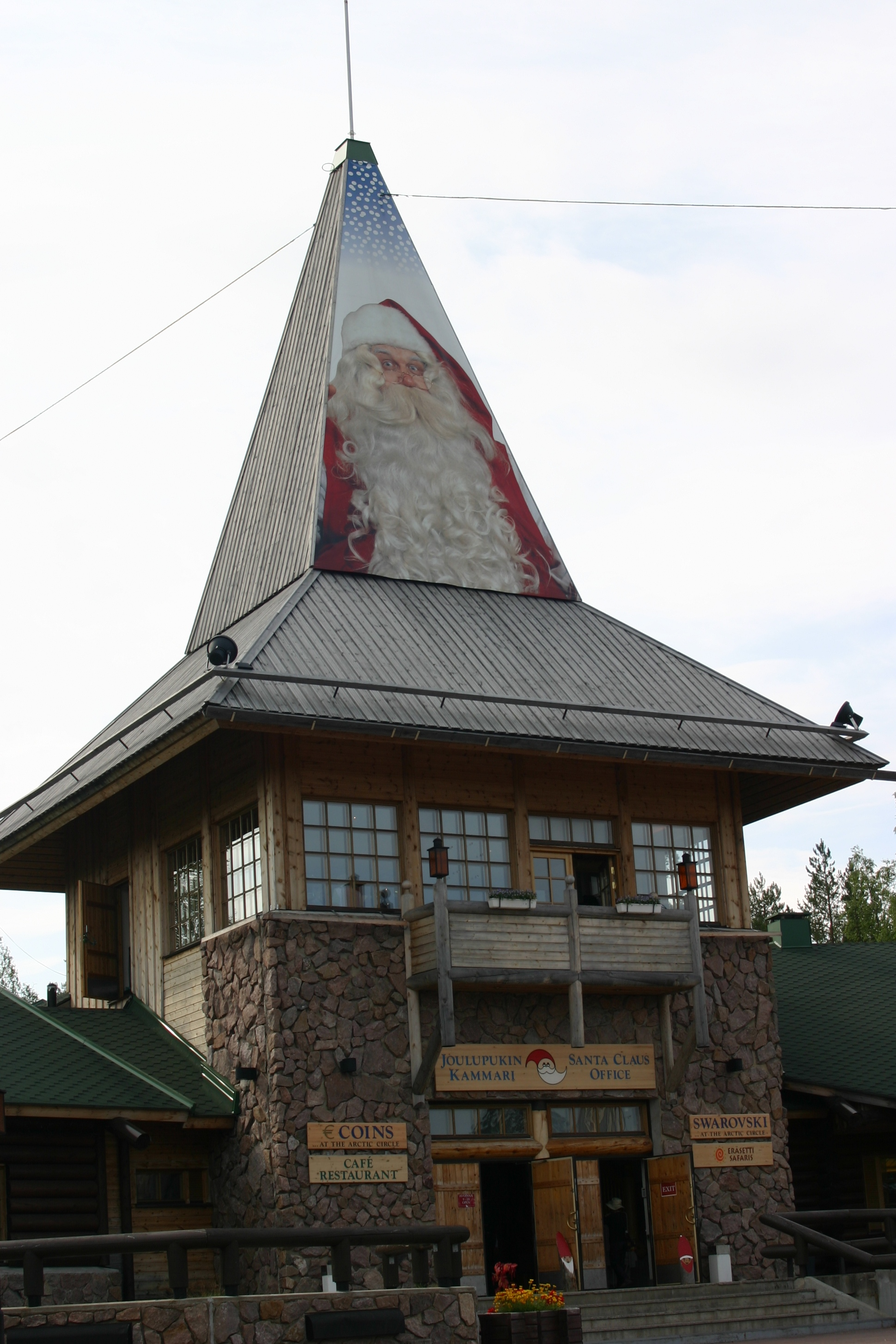 Santa Claus' Workshop Village (Joulupukin Pajakyla) near Rovaniemi